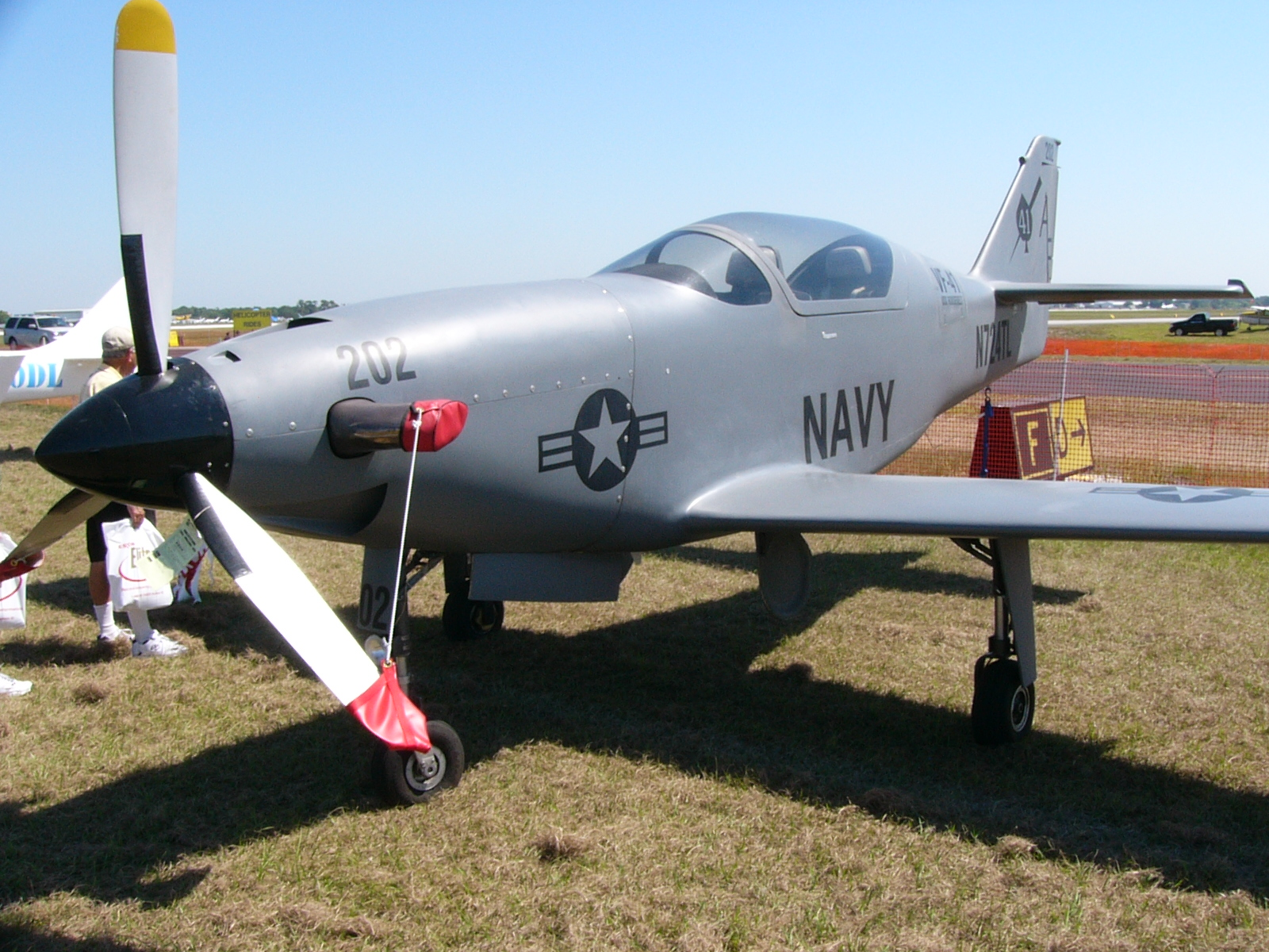 A Legend Aircraft Turbine Legend at Sun 'n Fun, Lakeland, Florida, United States.